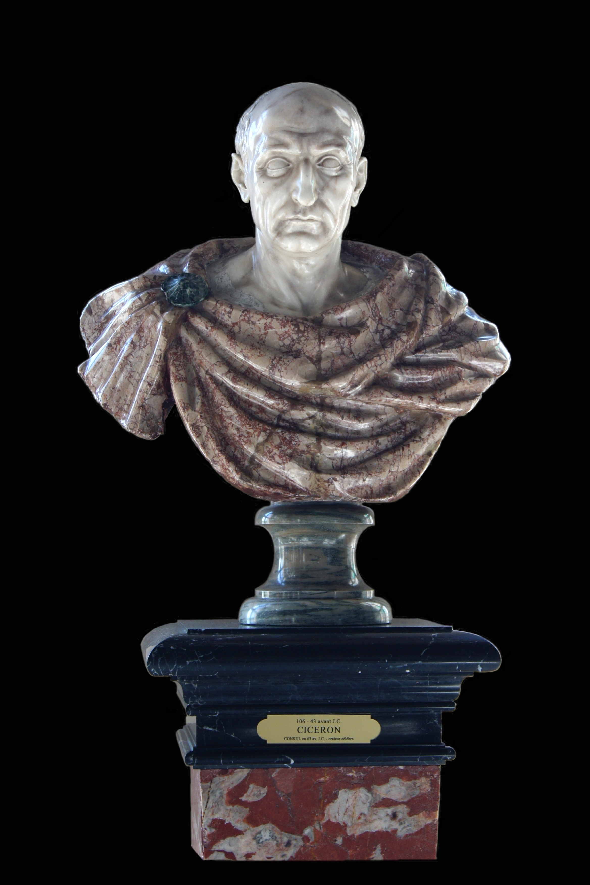 Marcus Tullius Cicero, Roman Consul, 106-43 BC, Marble bust from Florence (Italy), XVIIe century, Château de Vaux-le-Vicomte, France